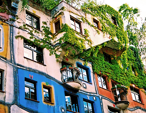 Austria, Vienna, Hundertwasserhaus